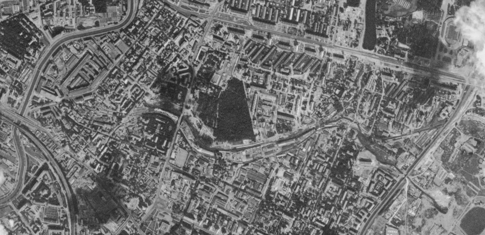 Khapilovka area in Moscow. Part of Corona satellite imagery